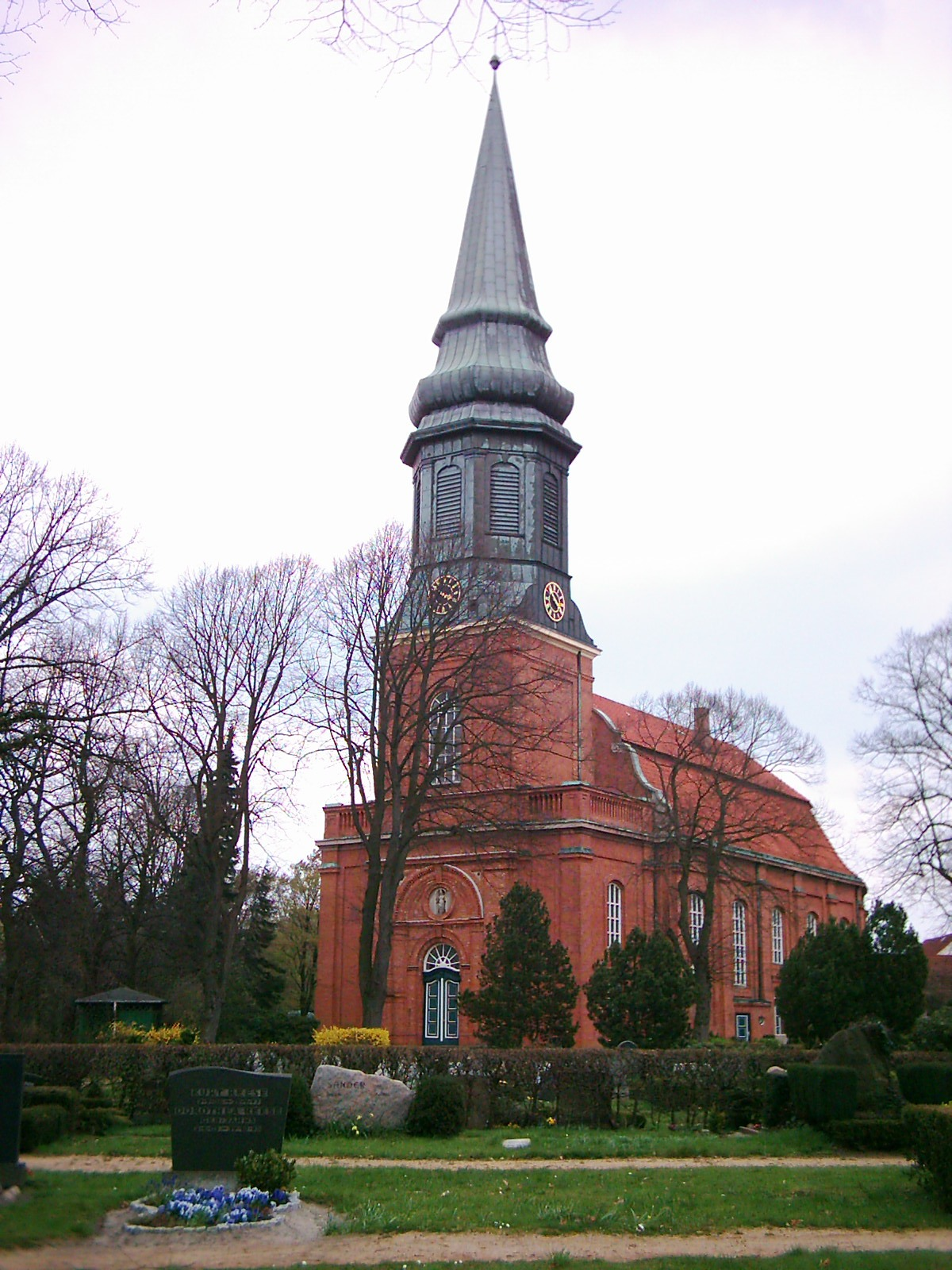 St. Nikolai church, Hamburg-Billwerder, Germany.